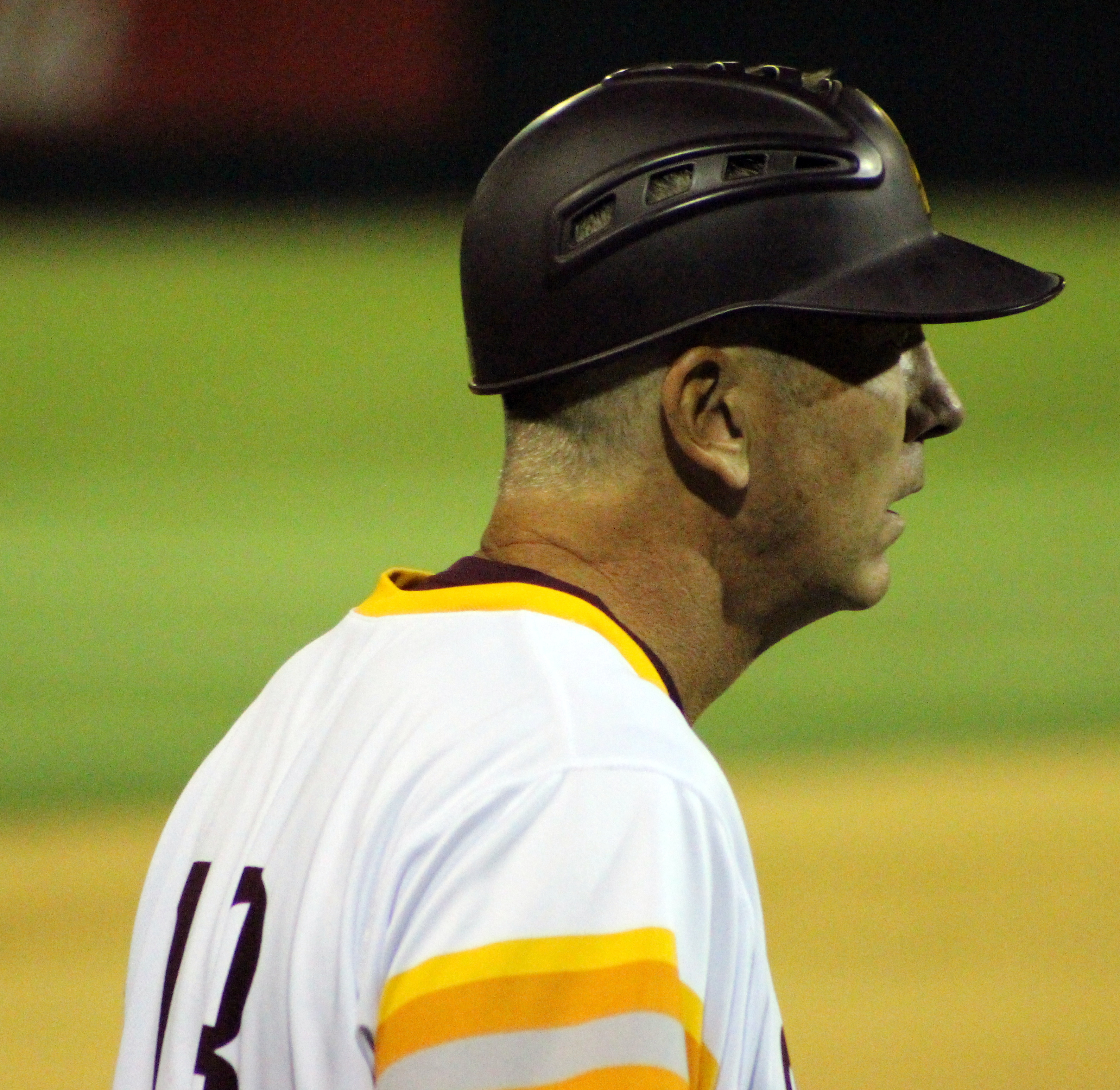 Arizona State had coach Tracy Smith during a May 2015 game at Phoenix Municipal Stadium